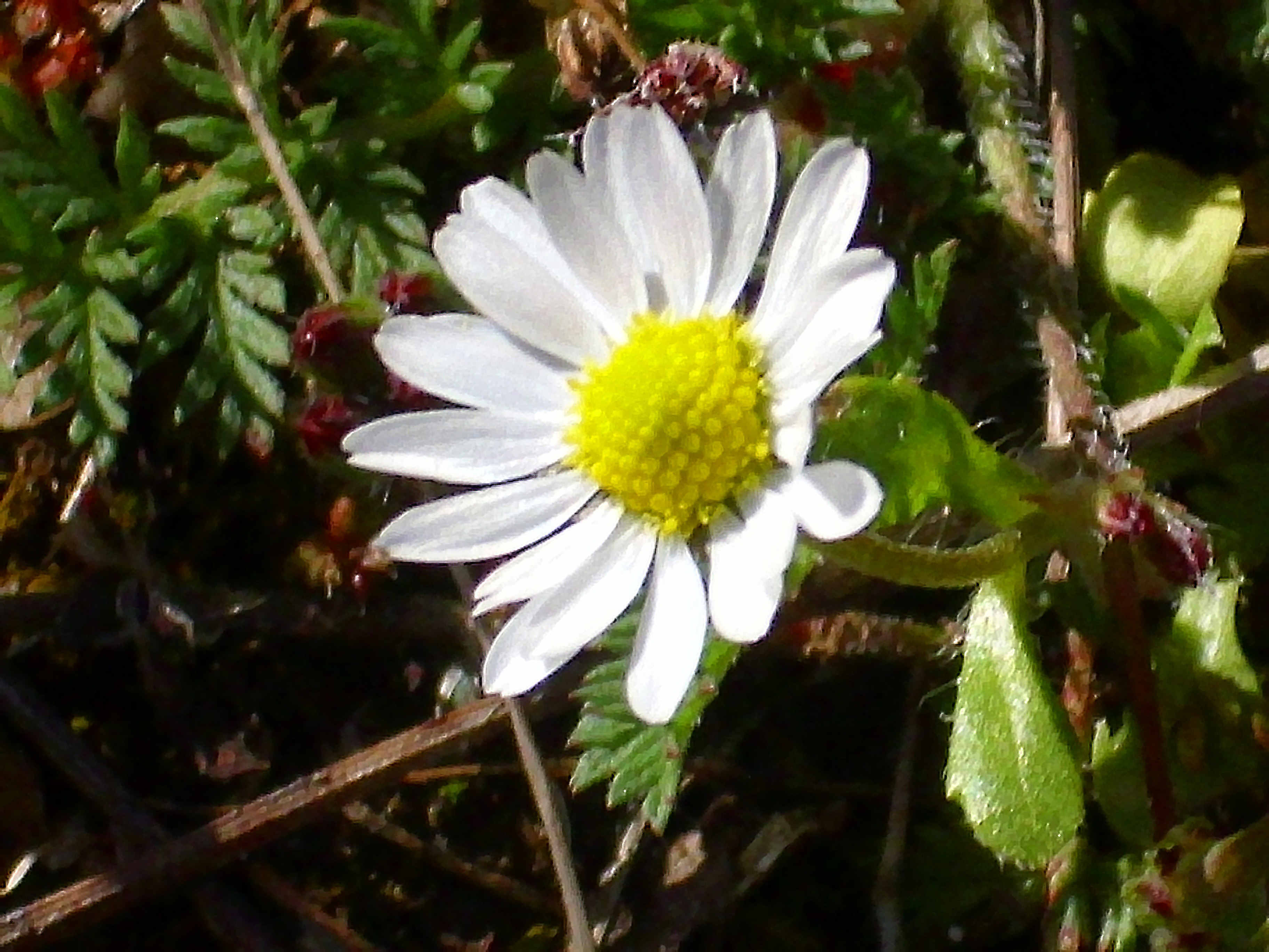 Bellis annua subsp. microcephala, close up, Sierra Madrona, Spain